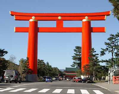 Giant torii at Heian jingu, a shinto shrine in Kyoto